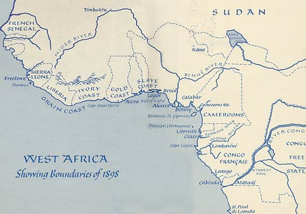 Kingsley traveled the length of the coast of West Africa